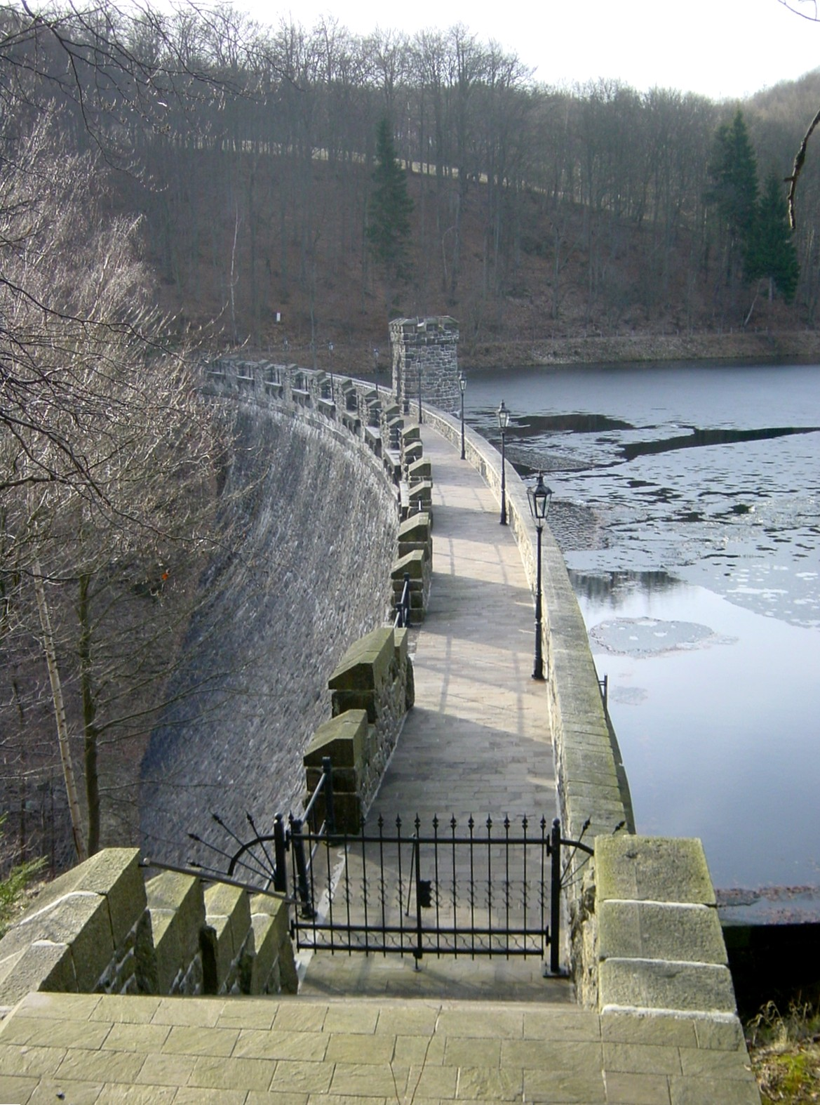 Kamenička Dam